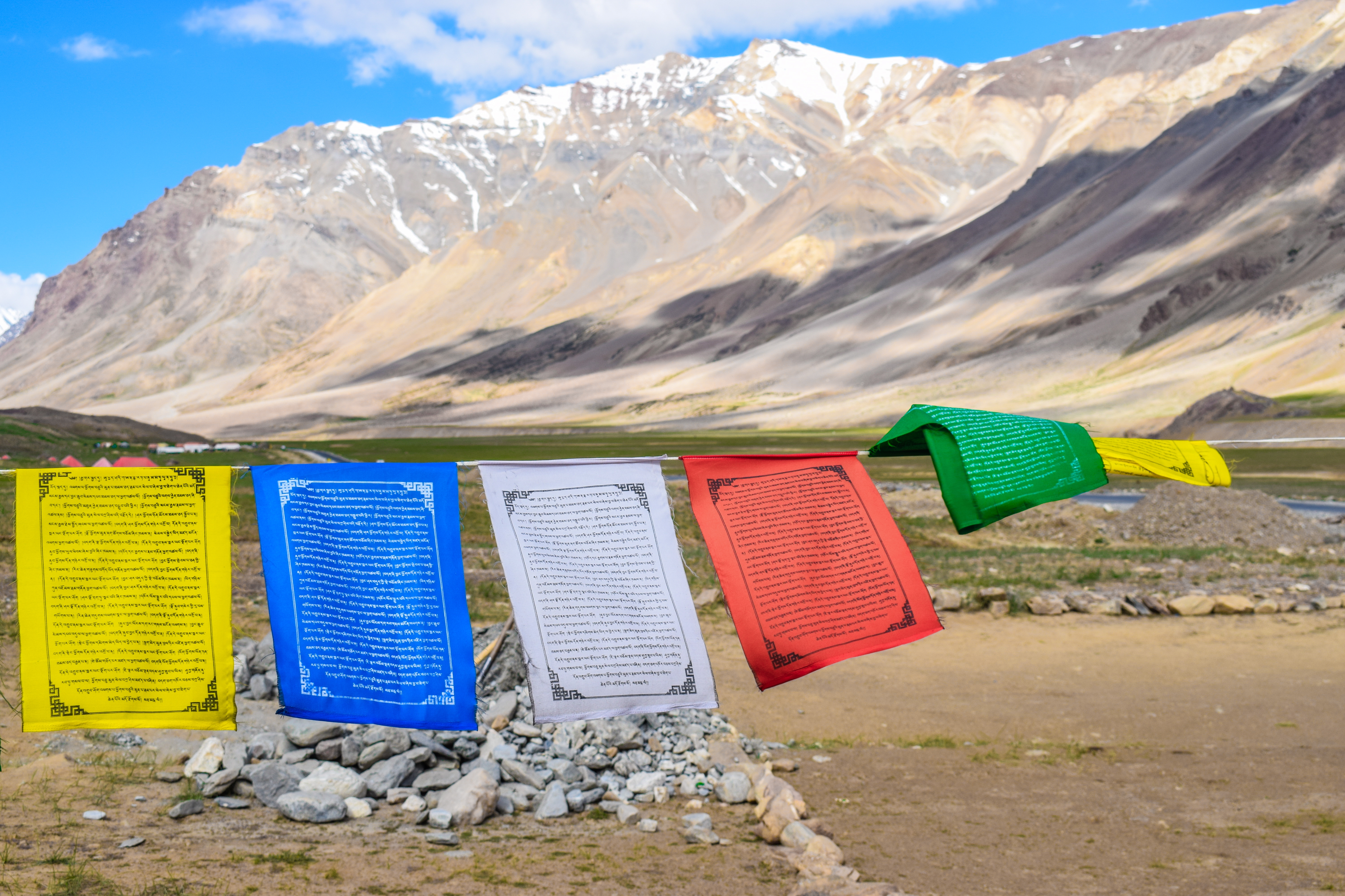 I clicked this picture of prayer flag at sarchu, during my ladakh trip in June 2018, this flag kind of motivated me and gave positive energy to keep moving and complete that long journey on bike.